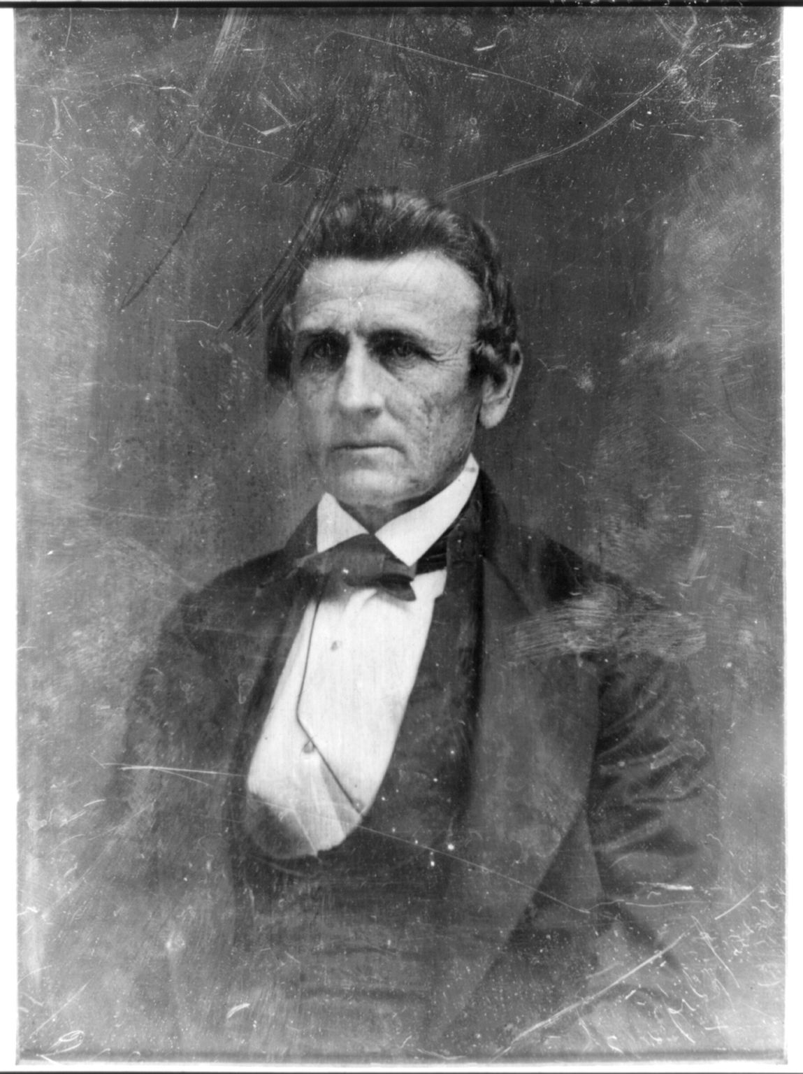 Benjamin Fitzpatrick, half-length portrait, slightly to left . Democratic Senator from Alabama, 1848-1861; Governor, 1842-1846; Vice-Presidential nominee, 1860.